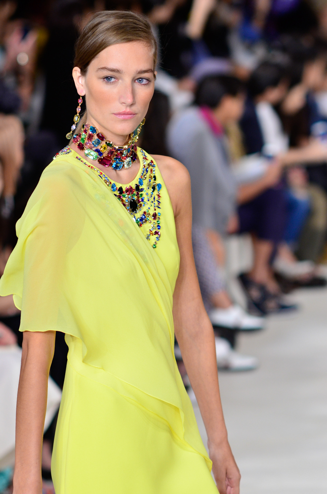 Josephine Le Tutour walking the Ralph Lauren Spring/Summer 2015 fashion show.